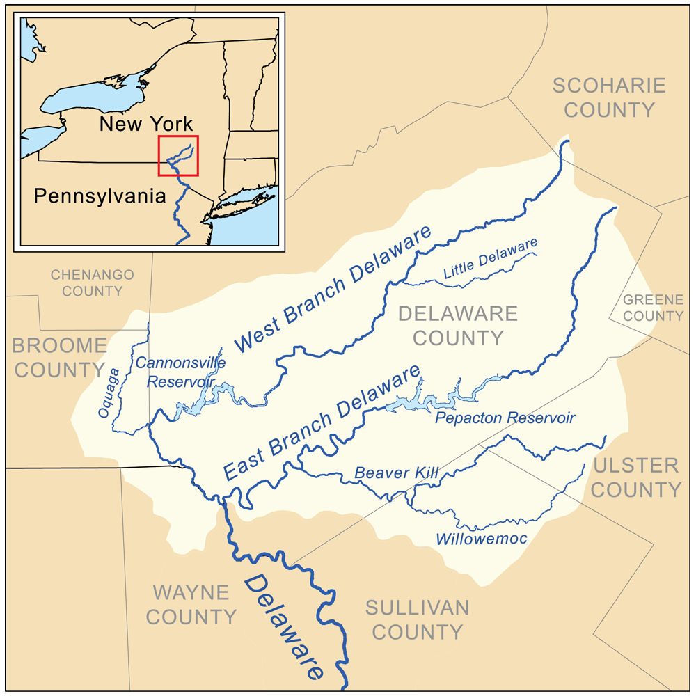 Map of the headwaters of the Delaware River — in New York. The yellow area is the drainage basin of the east and west branches of the Delaware River.